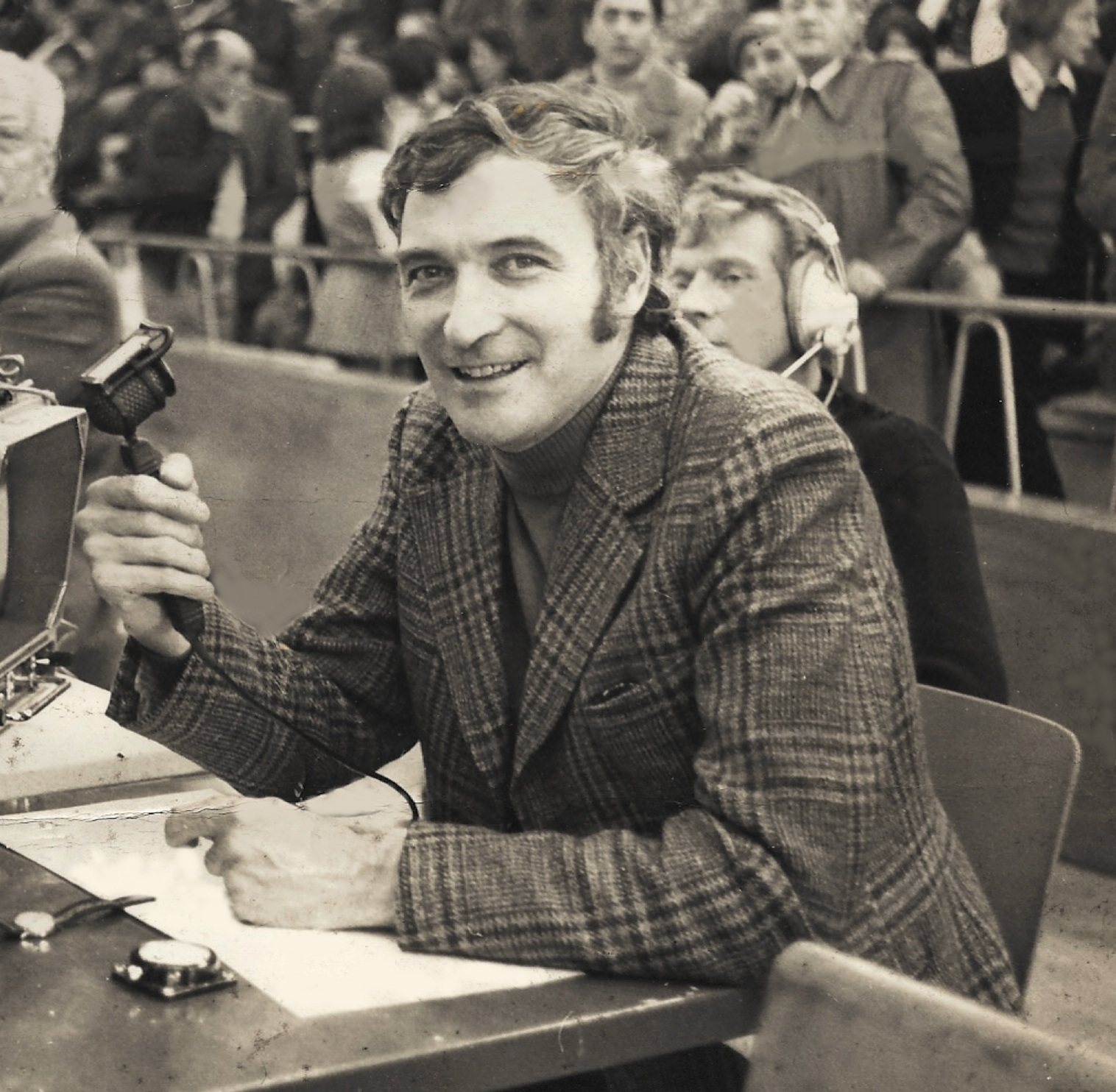 Jean Raynal commentating on a basketball match in 1970